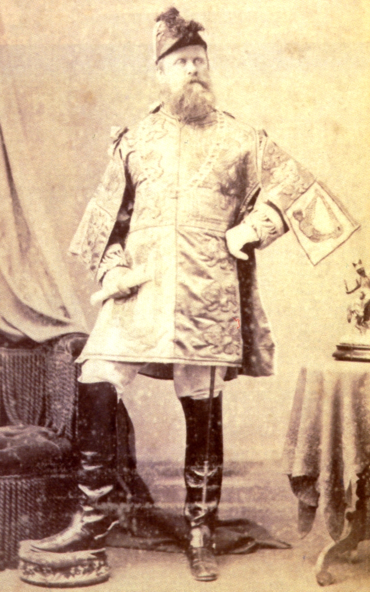 A photograph of Osmond Barnes serving as Chief Herald of the Delhi Assemblage at the Delhi Durbar in 1877.